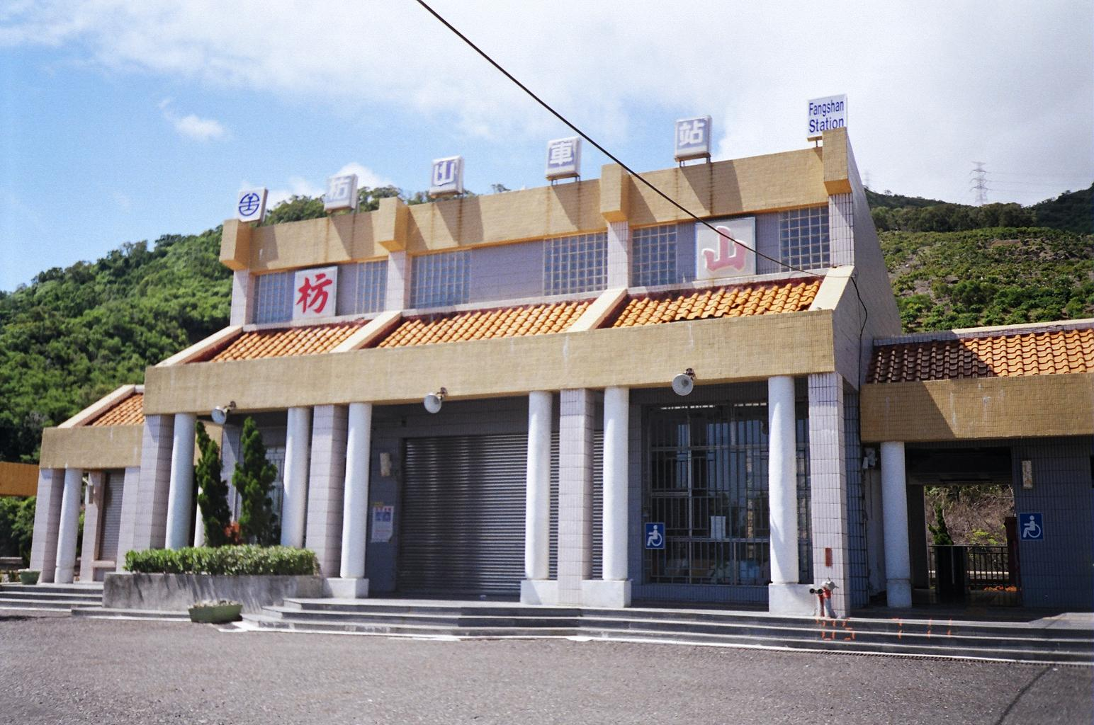 TRA Fangshan Station - Shihzih Township, Pingtung County, Taiwan.